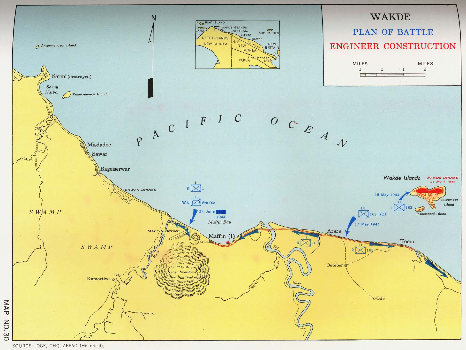 Map of the landing plan for the conquest of the Wakde Sarmi area in Dutch New Guinea in 1944 during MacArthur's New Guinea Campain.